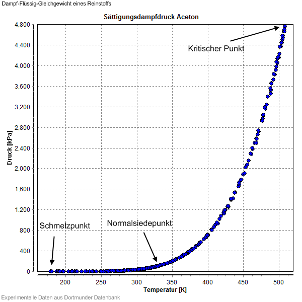 Saturated vapor pressure curve of acetone (pure component vapor-liquid equilibrium)